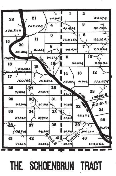 A map of a tract of land in Tuscarawas County, Ohio set aside for Christian Munsee in the 18th century. see Moravian Indian Grants